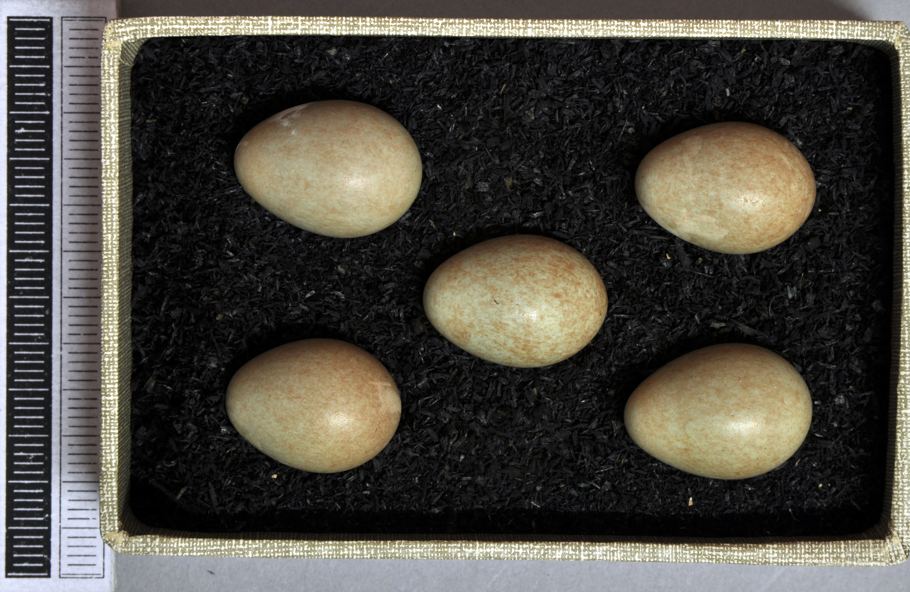 Bluethroat Luscinia svecica , egg, Coll. Museum Wiesbaden